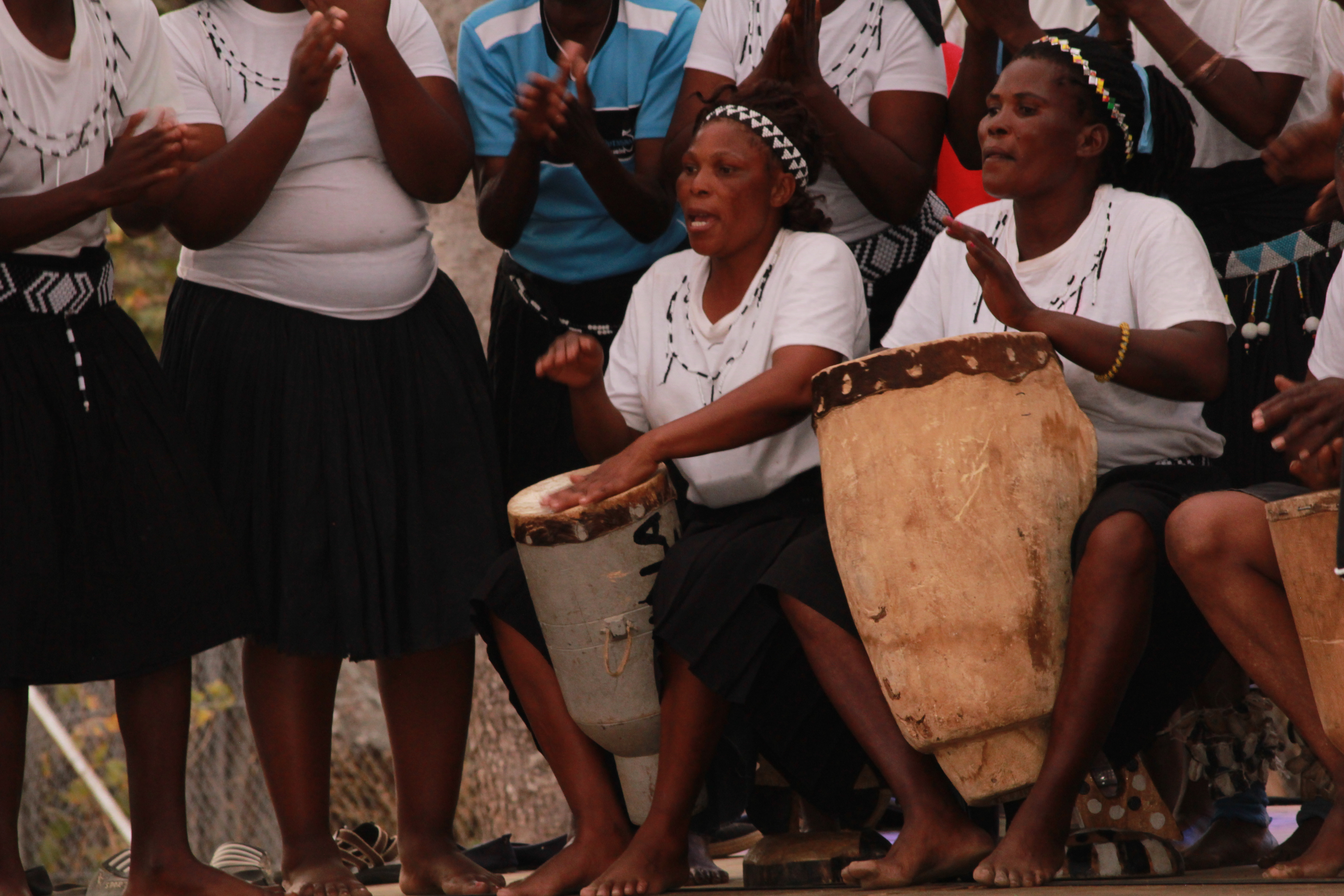 Dihosana Dance troupe at Domboshaba Cultural Festival 2017 (Domboshaba Ruins)